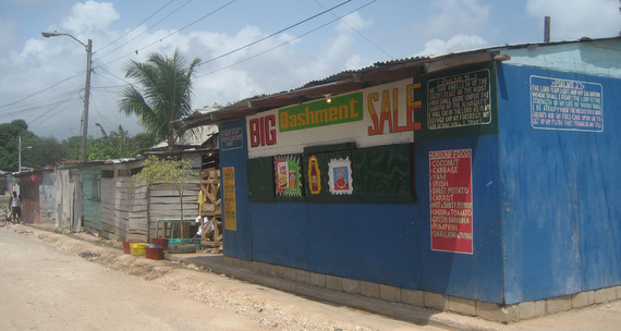 Shop in Trench Town